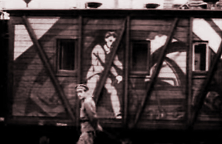 Section of a painted car of a Soviet "agit-train" from a 1921 newsreel.